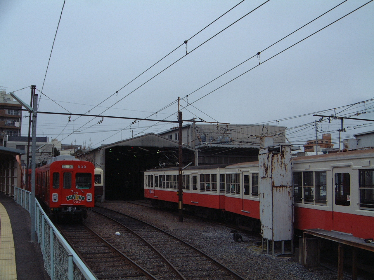 author:fwng3431 Date:04/Jan/2006 Takamatsu-Kotohira Electric Railway Imabashi factry